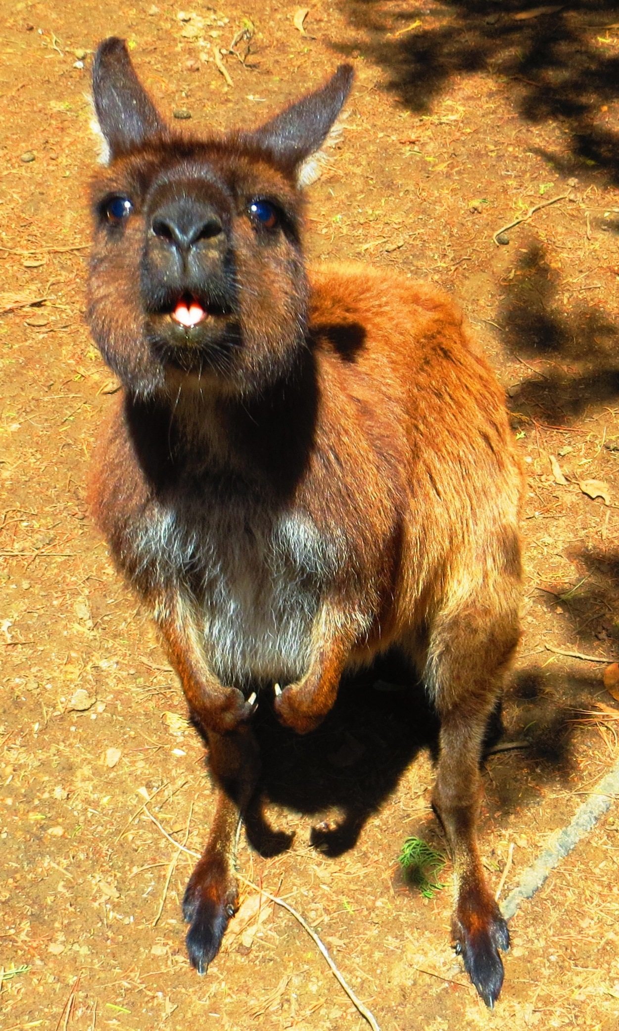 Kangaroo Island kangaroo (Macropus fuliginosus fuliginosus), Stokes Bay, Kangaroo Island, South Australia